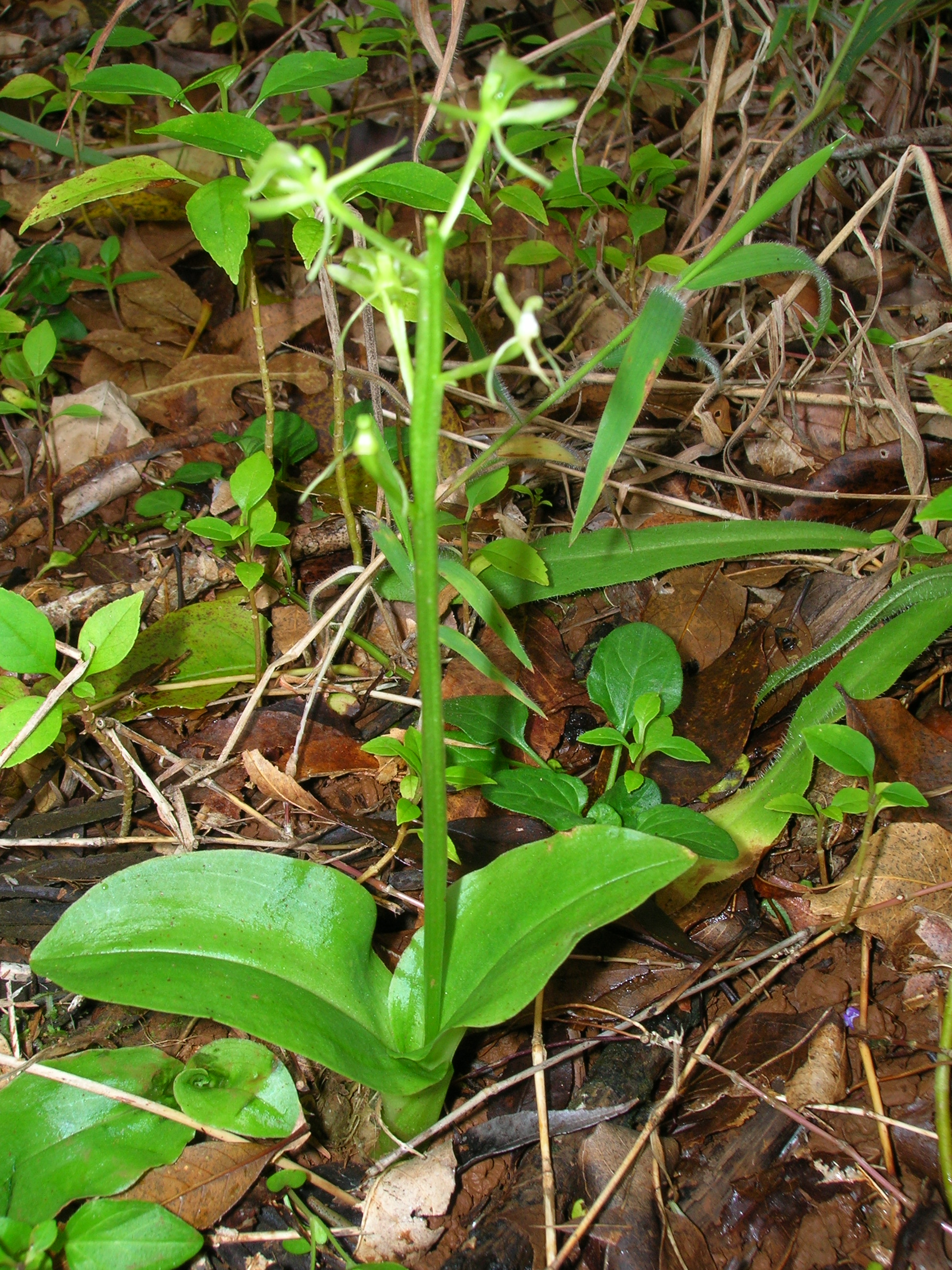 Liparis hawaiensis (flowers). Location: Maui, Makawao Forest Reserve